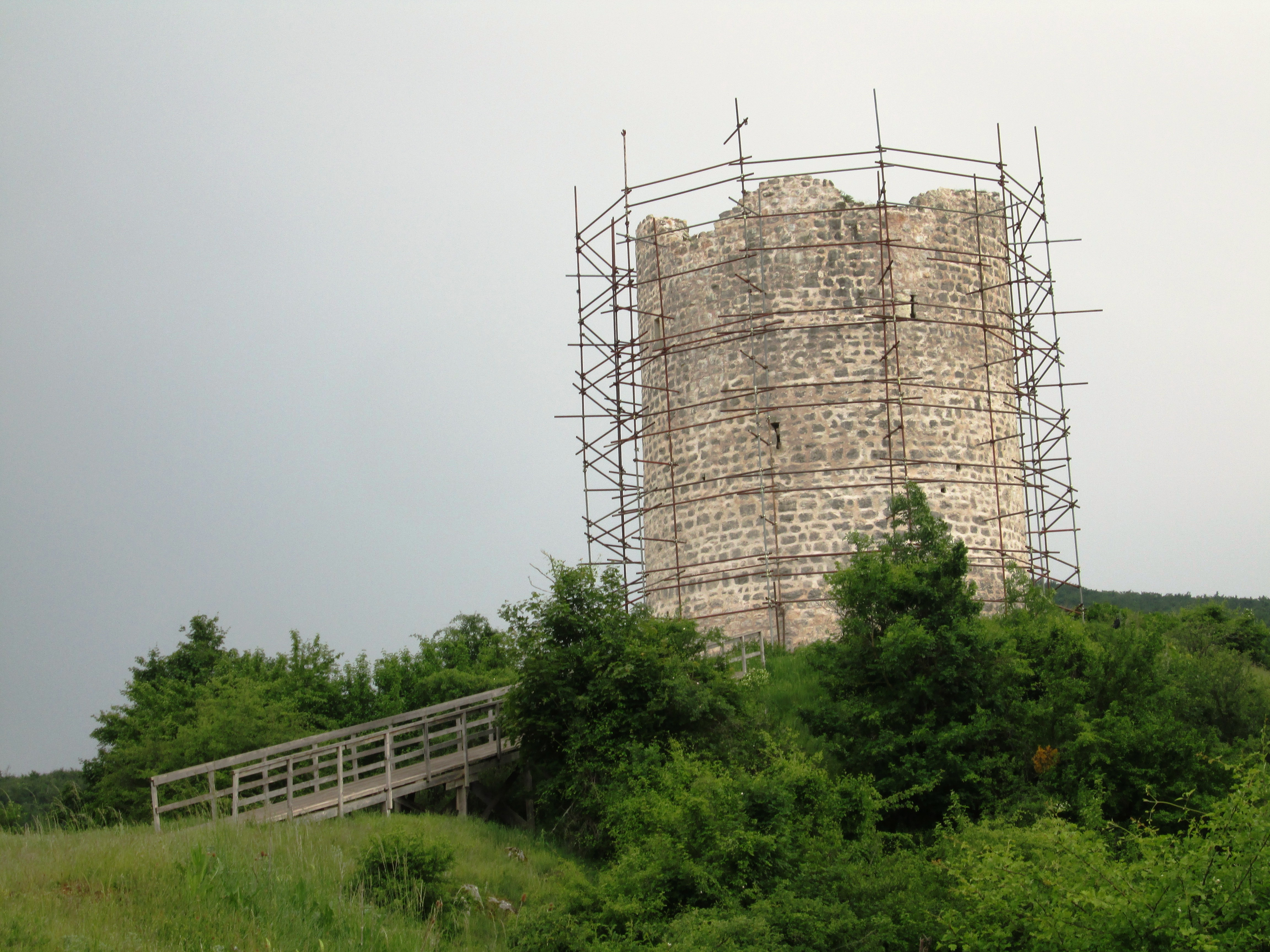 Tower in Perusic, Croatia